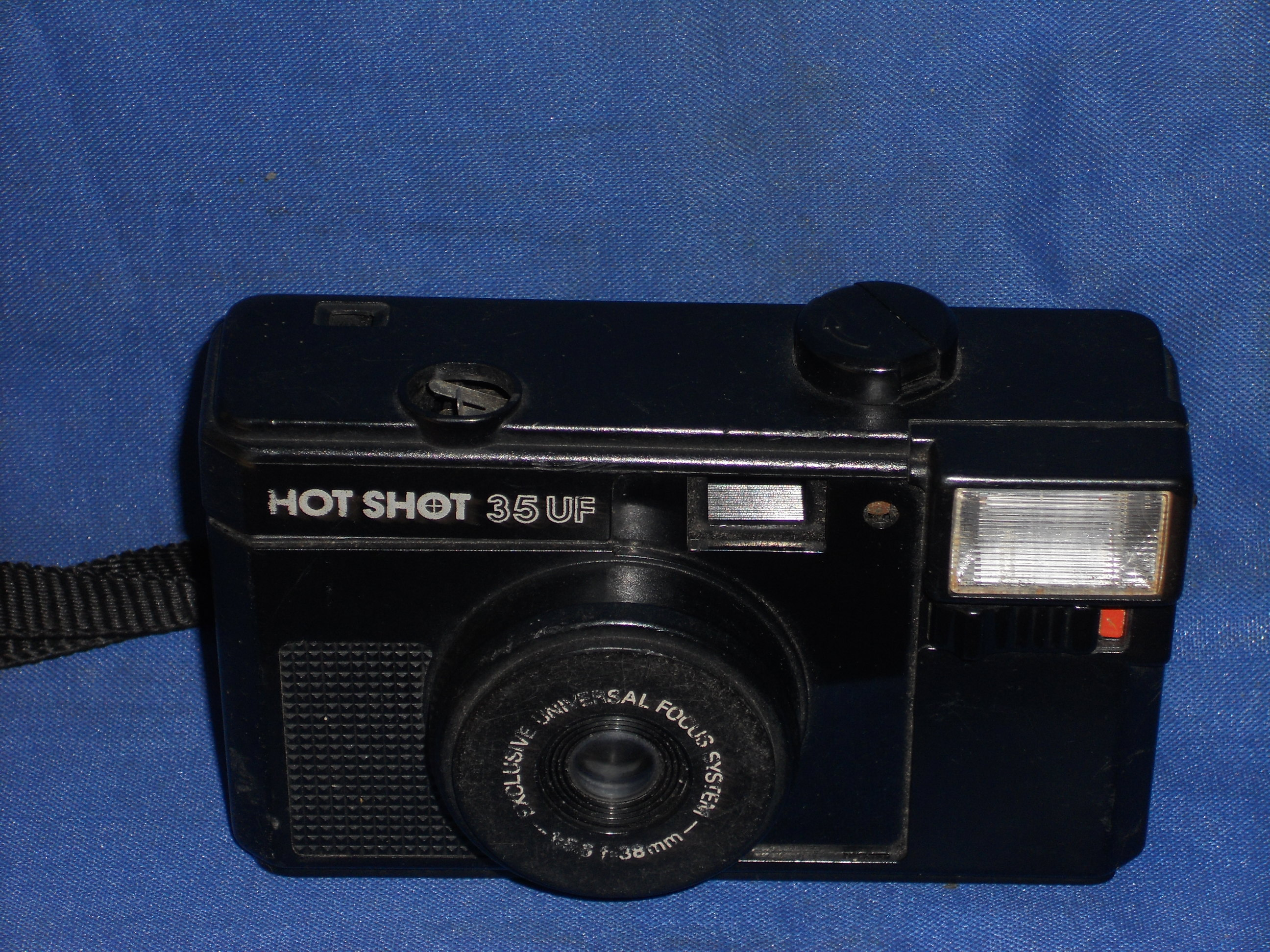 Hotshot_camera